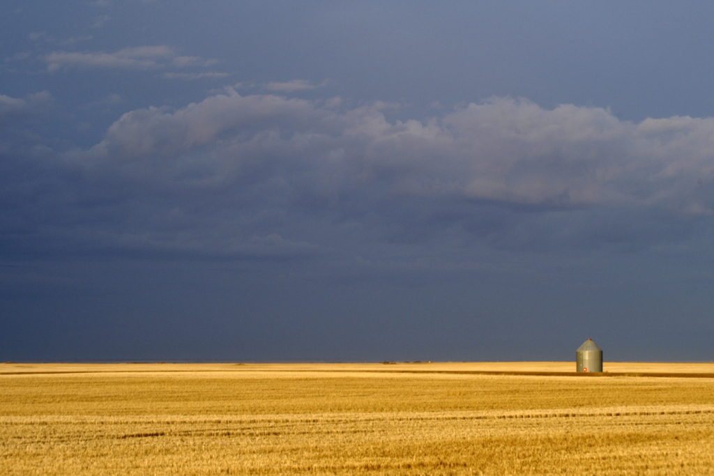 Wheat field in early spring, near Weyburn Saskatchewan